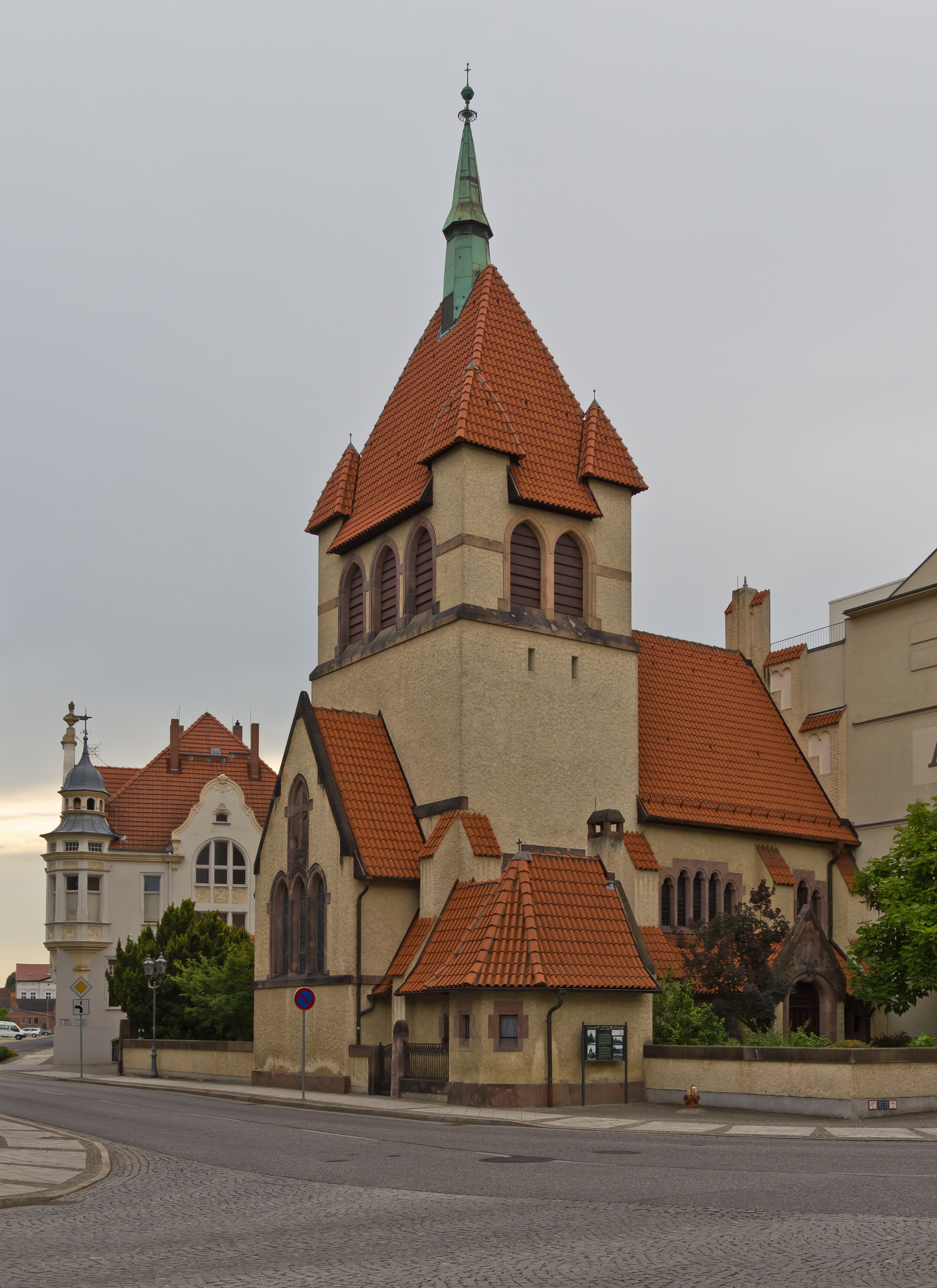 Church of the Good Shepherd in Guben, Brandenburg, Germany